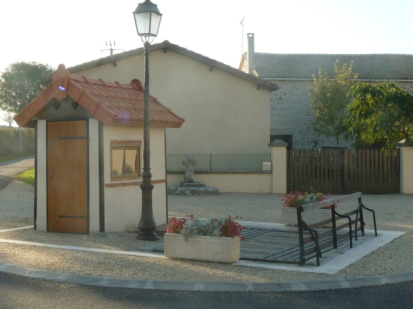 public scale, Les Pins, Charente, SW France